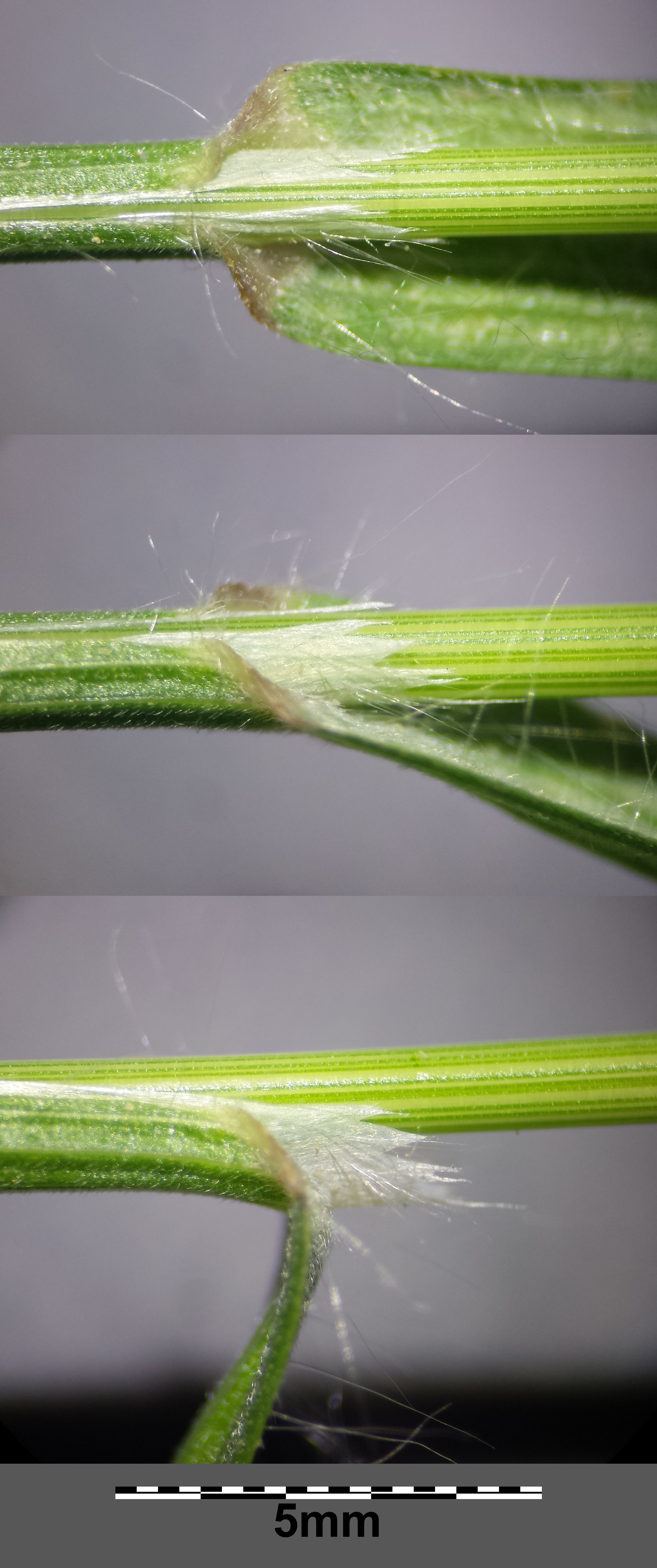 Stem with leaf sheath and ligule Taxonym: Bromus sterilis ss Fischer et al. EfÖLS 2008 ISBN 978-3-85474-187-9 Location: Donaupark, Vienna-Donaustadt - ca. 160 m a.s.l. Habitat: ruderal, dry meadows